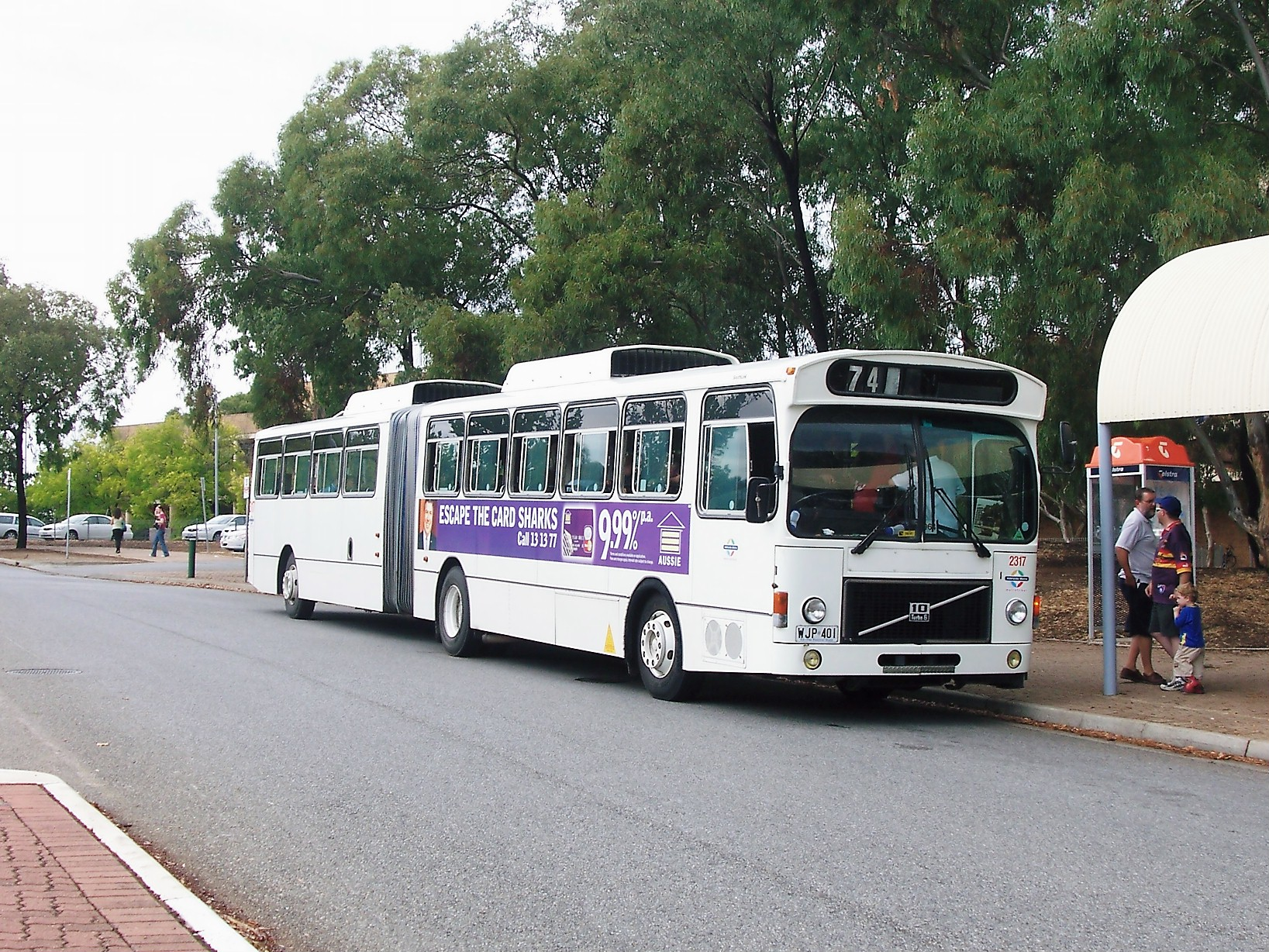 This is a PMC-Adelaide Bodied Volvo B10M articulated. This bus has since been retired.